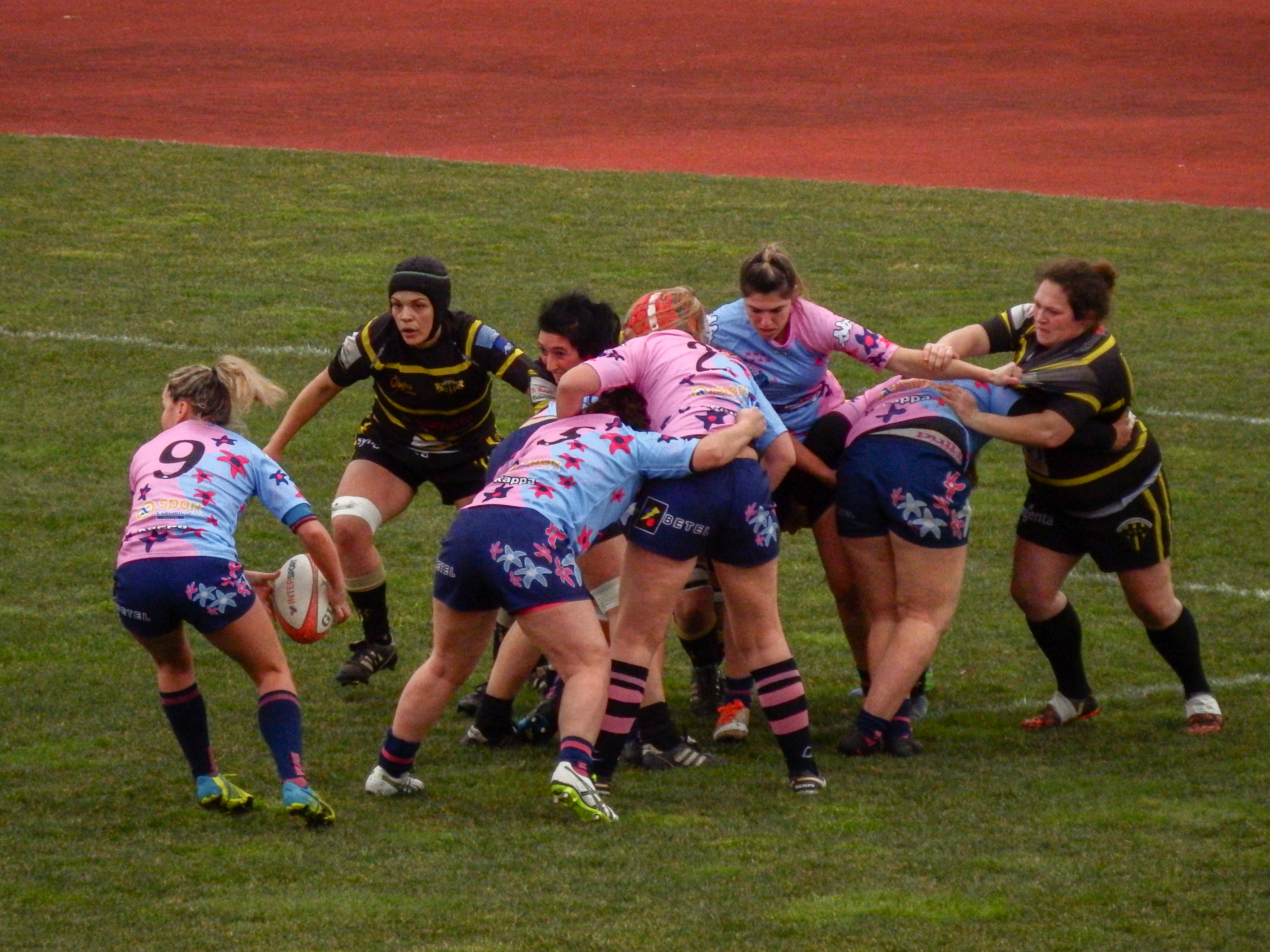 Q46998097 — 12 February 2017, stade Colette-Besson. Match between: Pachys de l'US Dax — Q61746557